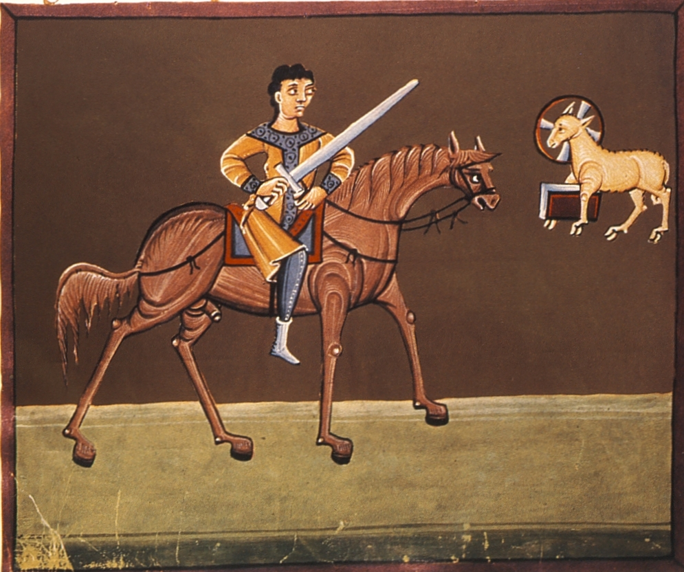 The second horseman